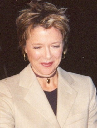 Annette Bening in Toronto. Actress Annette Bening at the 2005 Toronto International Film Festival.